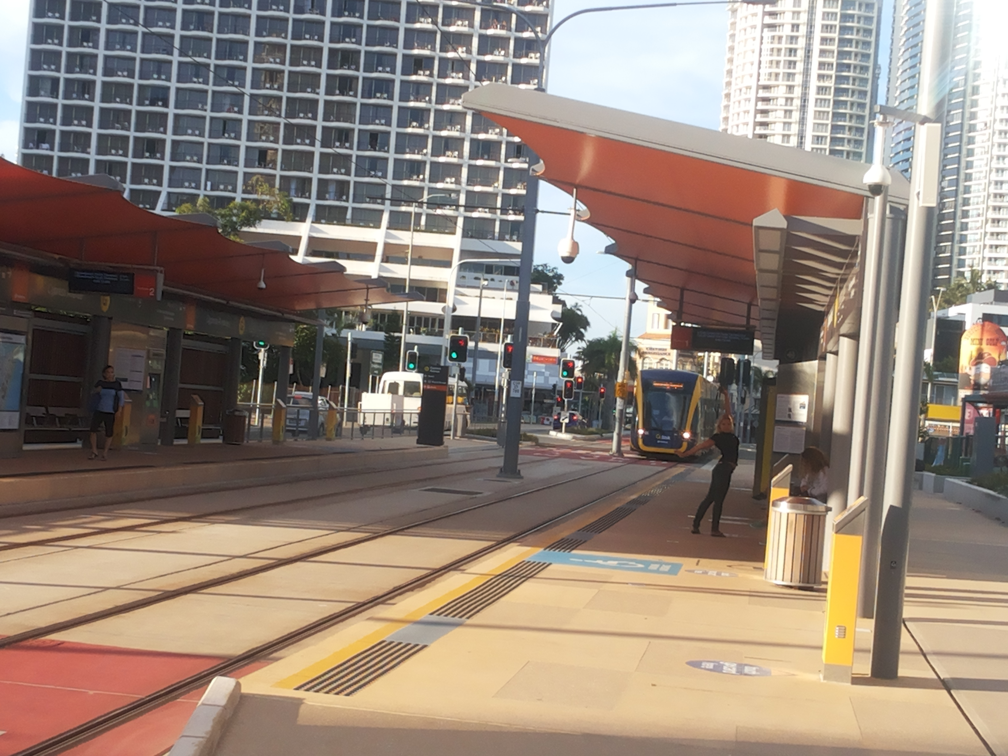 Cypress Avenue tram Station on the Gold Coast, March 2015